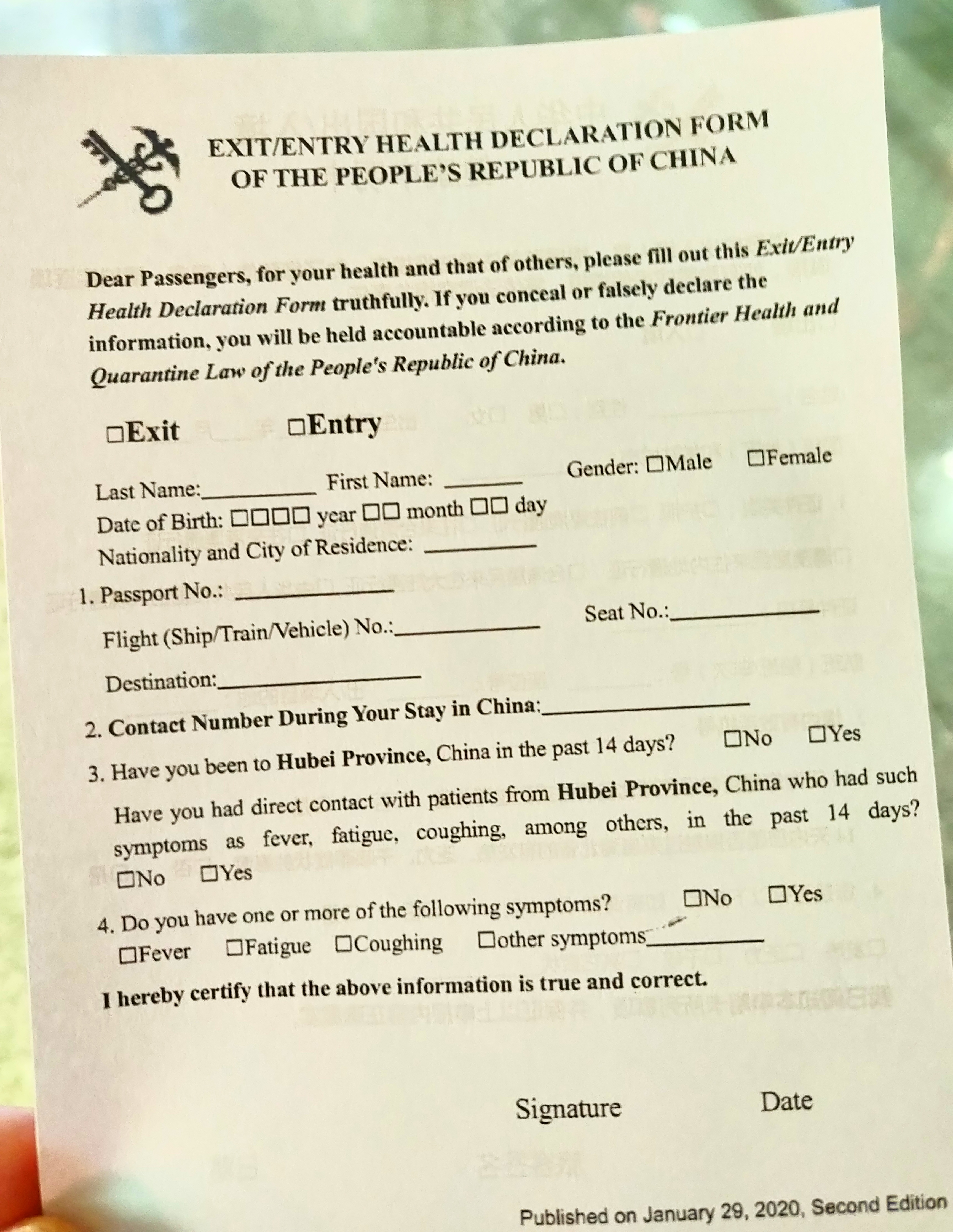 Exit/Entry Health Declaration Form of the People's Republic of China. (Second edition. Published on 29 January 2020). Travellers leaving China had to fill in this form in early February. Third question: "Have you been to Hubei Province, China in the past 14 days?". Location of the photo: Futian Checkpoint, Shenzhen.